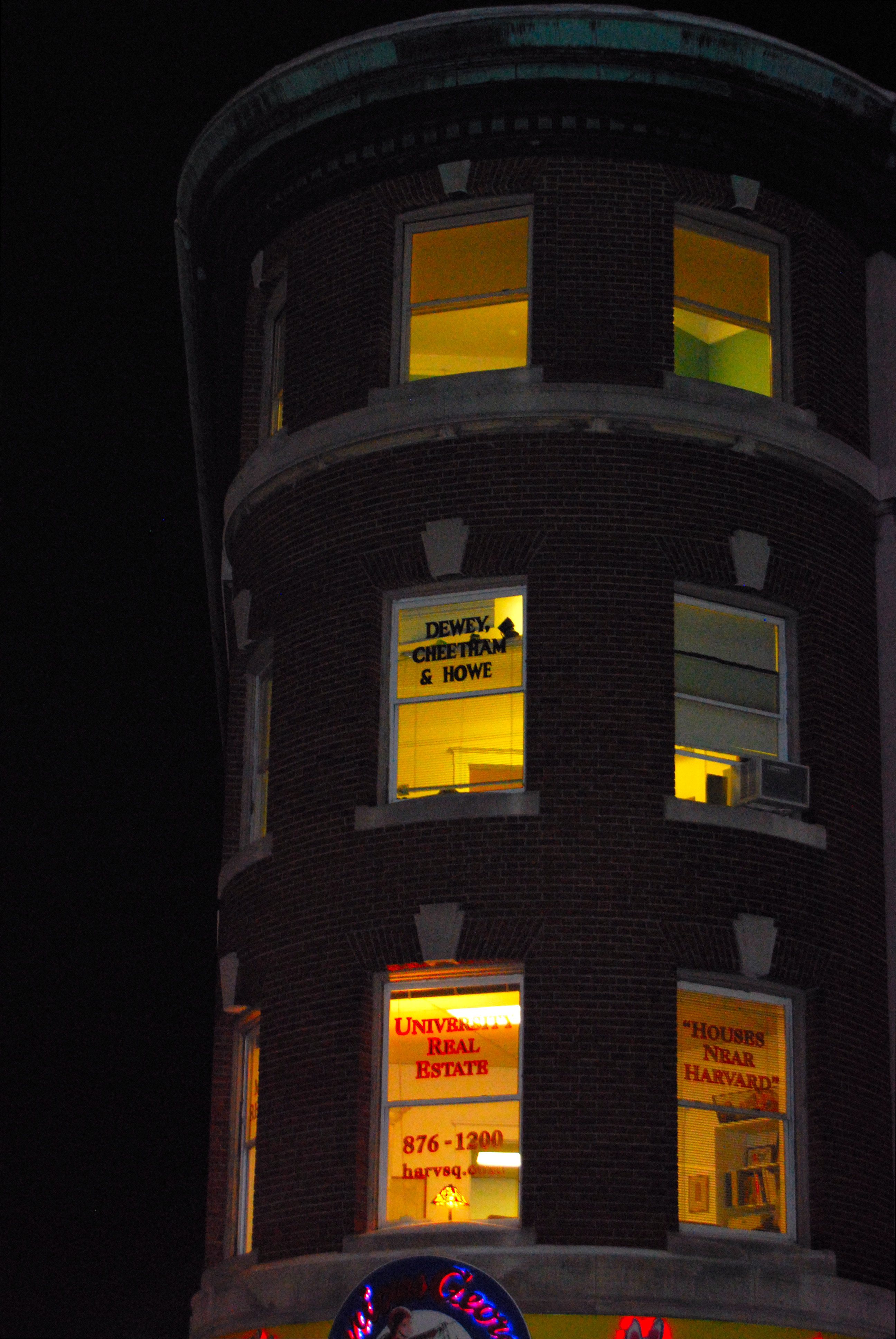 Offices of Dewey, Cheetham and Howe, Cambridge, MA is the home of the Car Talk guys, Click and Clack, the Tappet Brothers, Tom and Ray Magliozzi.